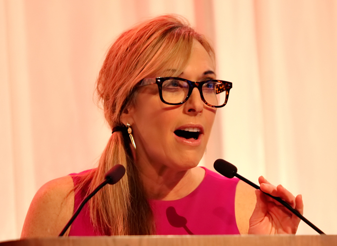 Linda Cohn speaks into a microphone at a podium in 2015